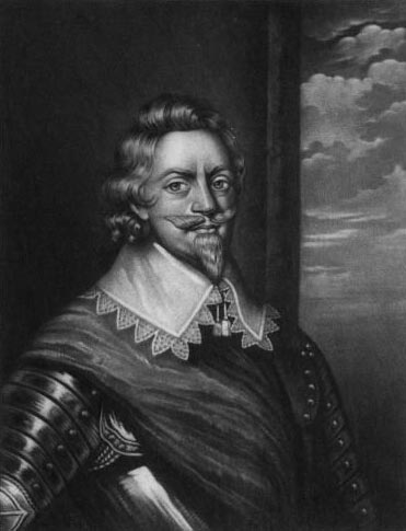 Depicted person: Patrick Ruthven, 1st Earl of Brentford